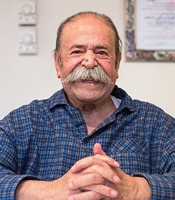 Mohammad Ali Keshavarz